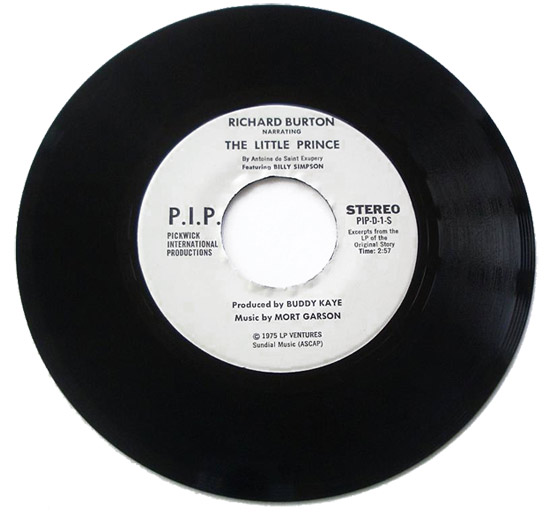 An excerpt 45 RPM record of Richard Burton narrating The Little Prince.